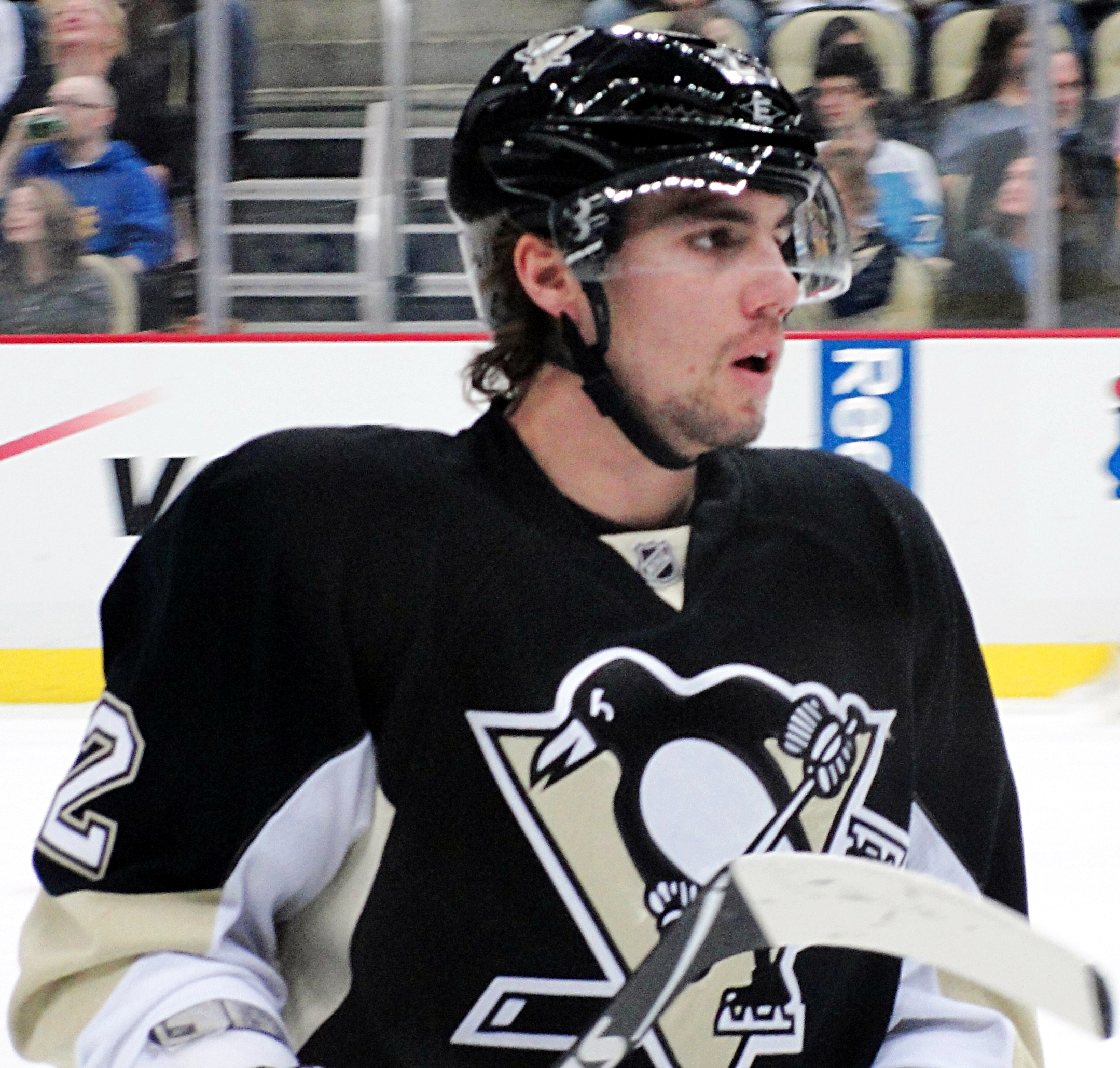 Pittsburgh Penguins defenseman Matt Niskanen during a game against the Boston Bruins, March 11, 2012 at Consol Energy Center in Pittsburgh, PA.